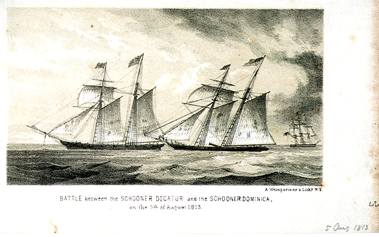 Acquatint of the engagement between the American privateer Decatur and HMS Dominica